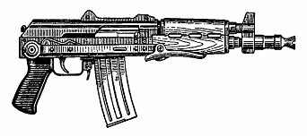 Zastava M85 assault rifle, no butt stock